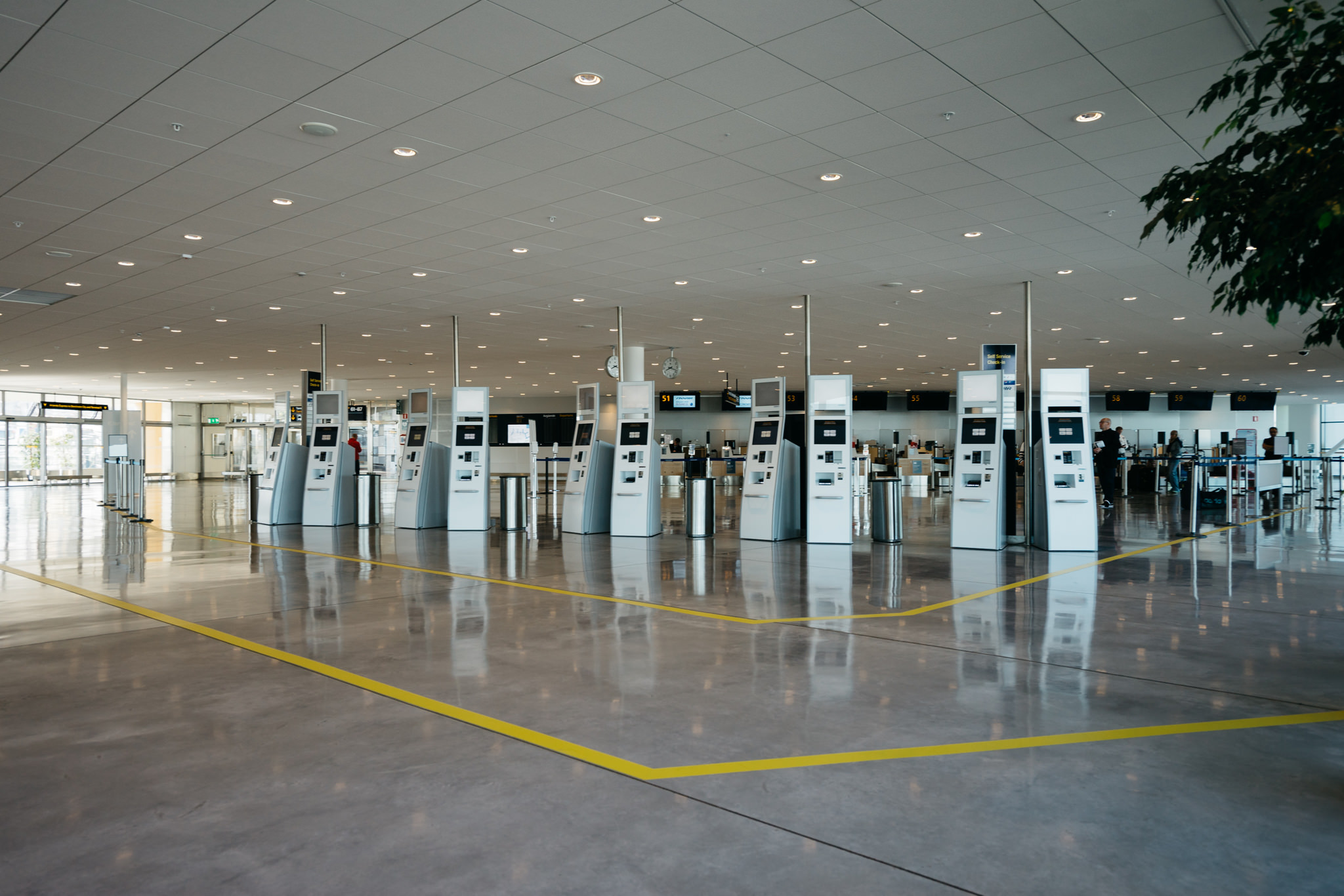 Check-In area at Stockholm Arlanda Airport